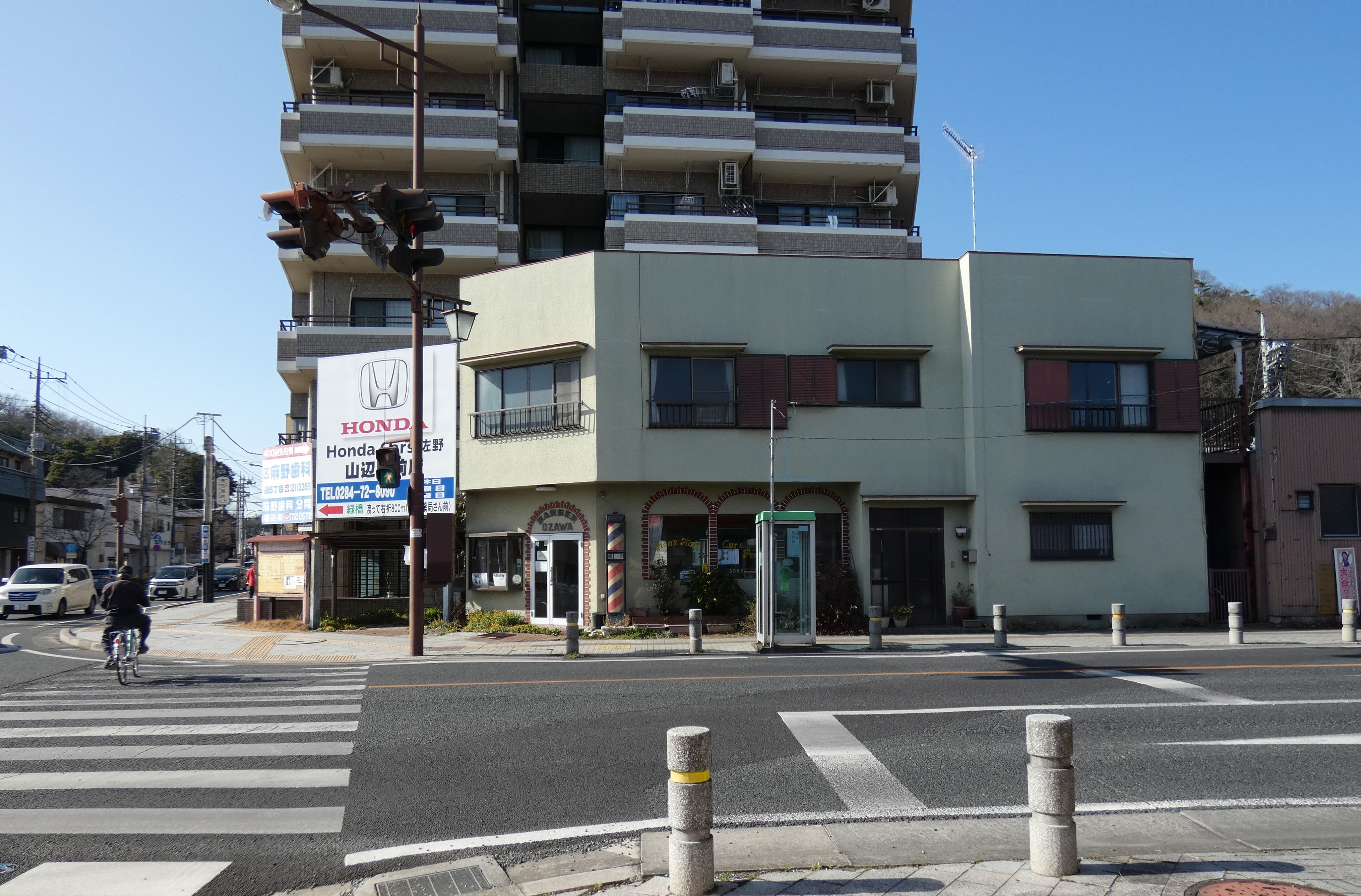 A barber and a telephone box in Ashikaga, Japan. This is one of the famous sightseeing spots in Ashikaga city for appearing in the song "Watarasebashi" (1993) of Chisato Moritaka.